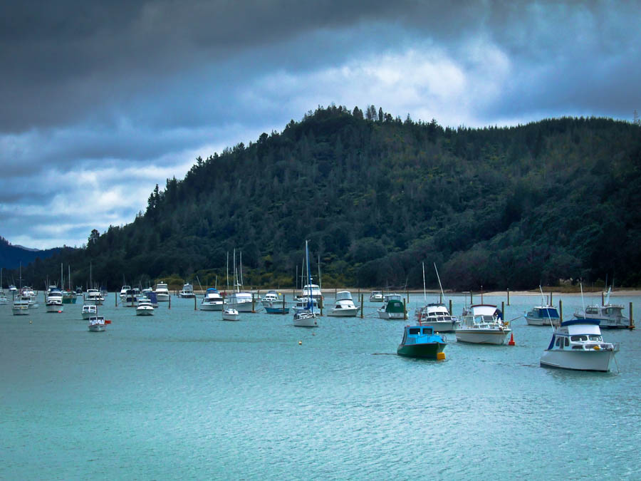 Dark grey morning over the Whangamata Harbour.